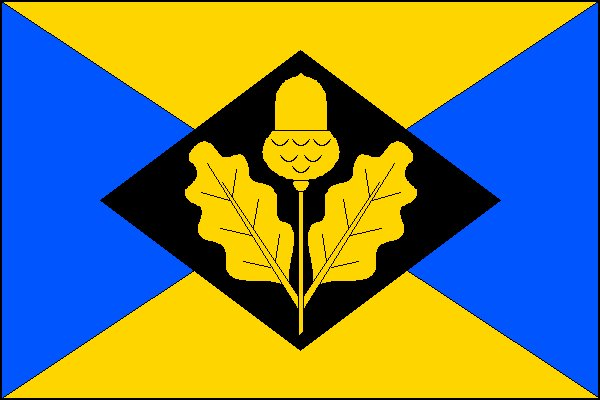 Municipal flag of Stupava village, Uherské Hradiště District, Czech Republic.